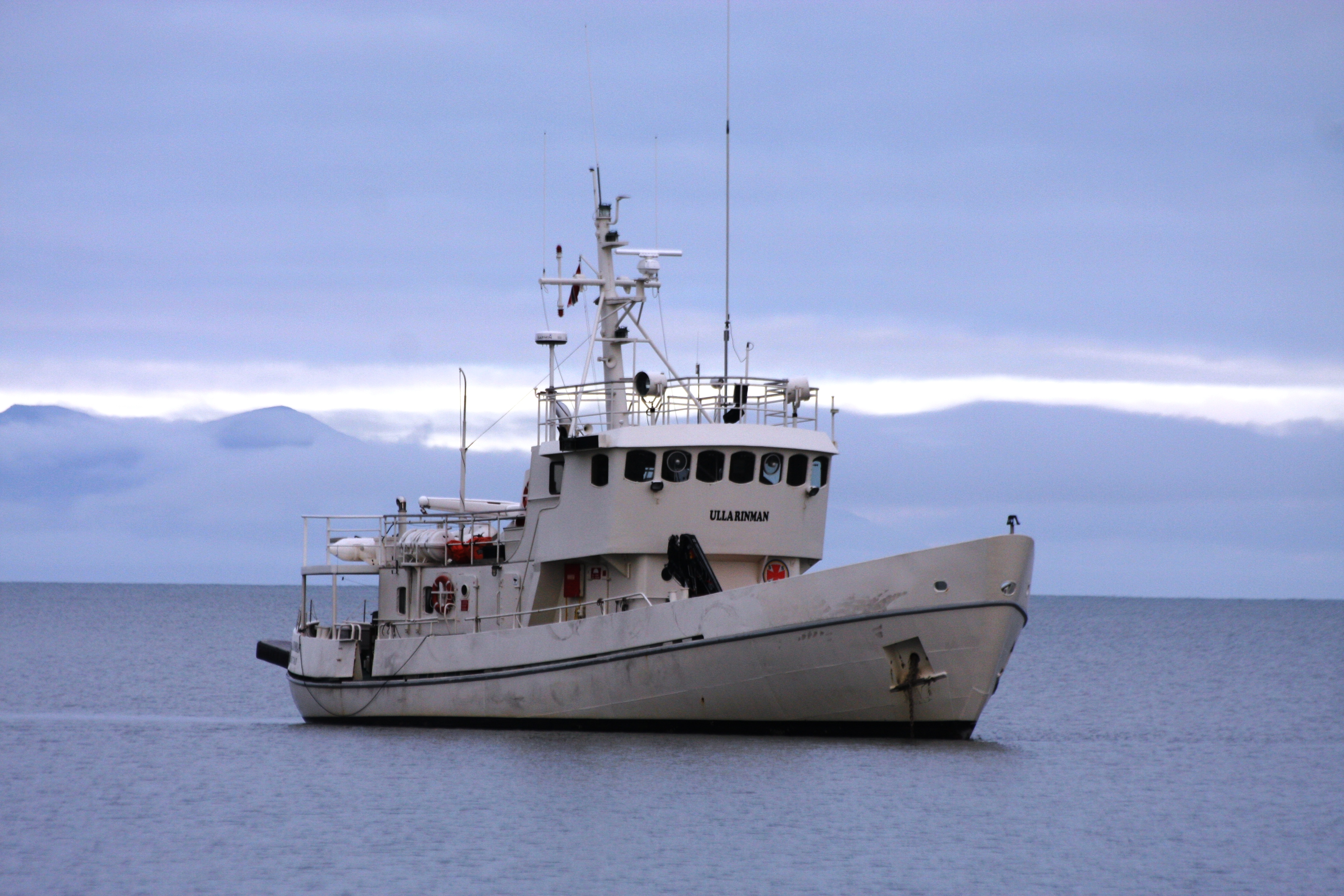 Ulla Rinman private arctic yacht, og Sweden. In the Adventfjorden bay, Spitsbergen.